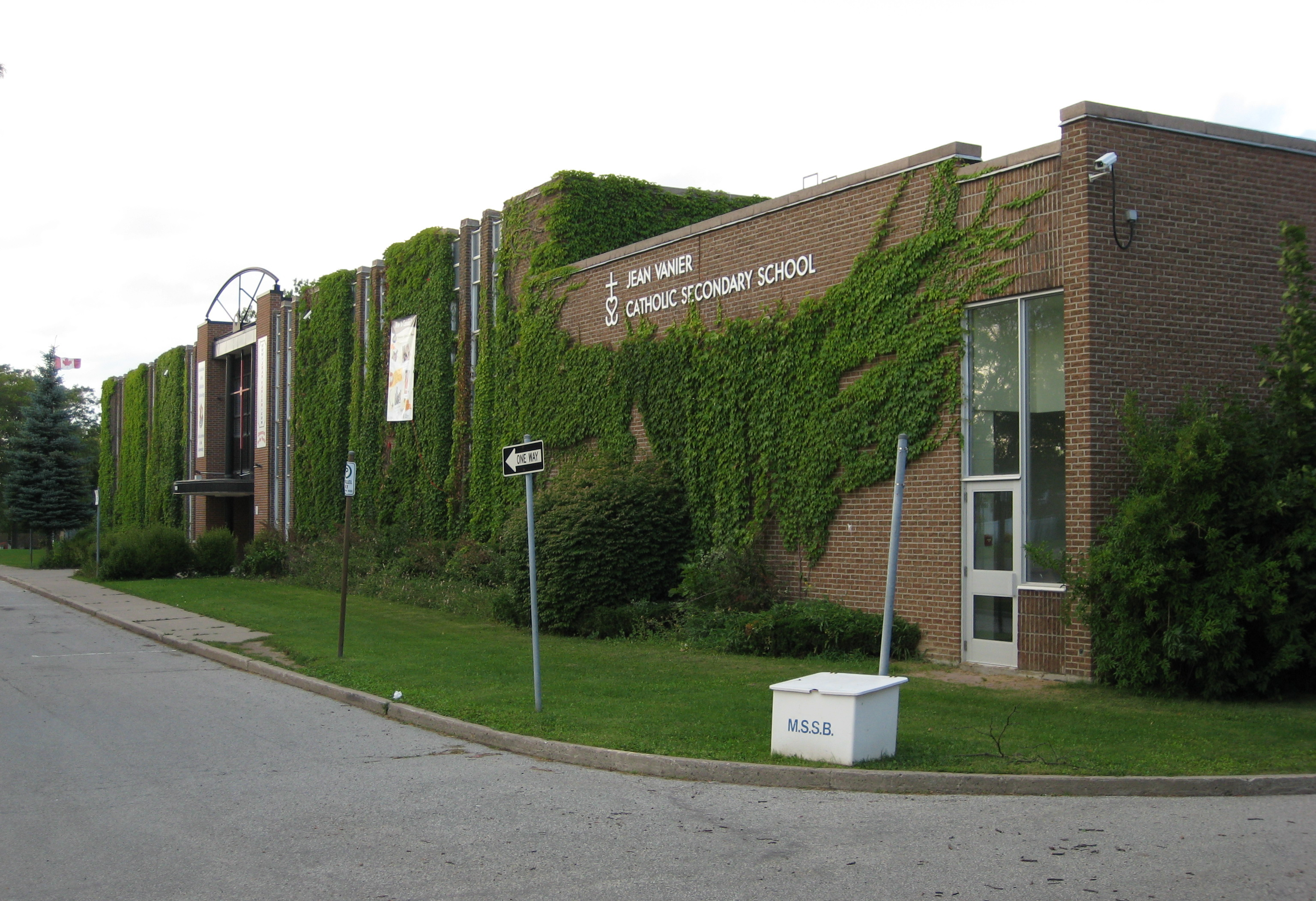 Jean Vanier Catholic Secondary School